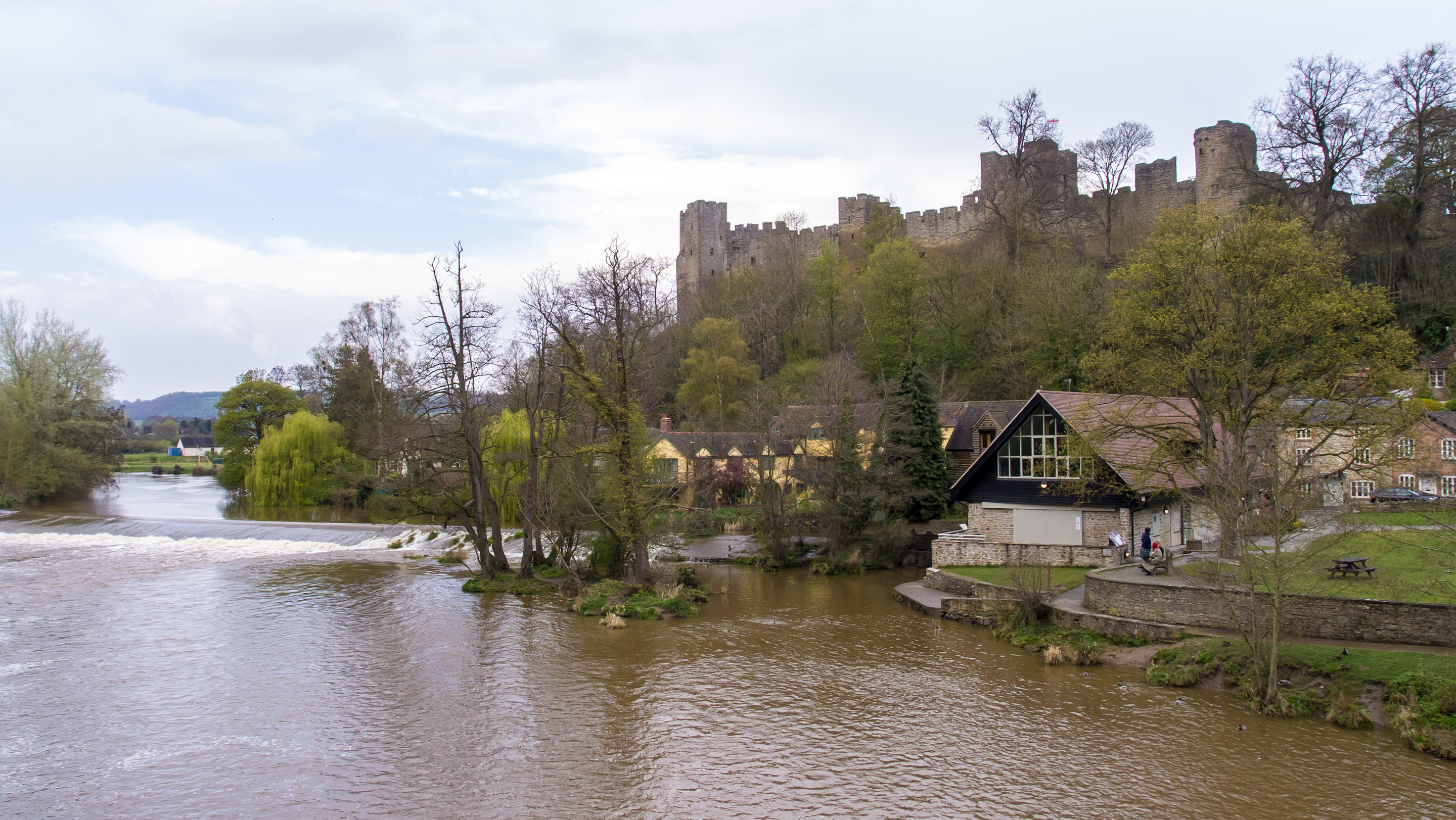 Ludlow Castle overlooking river